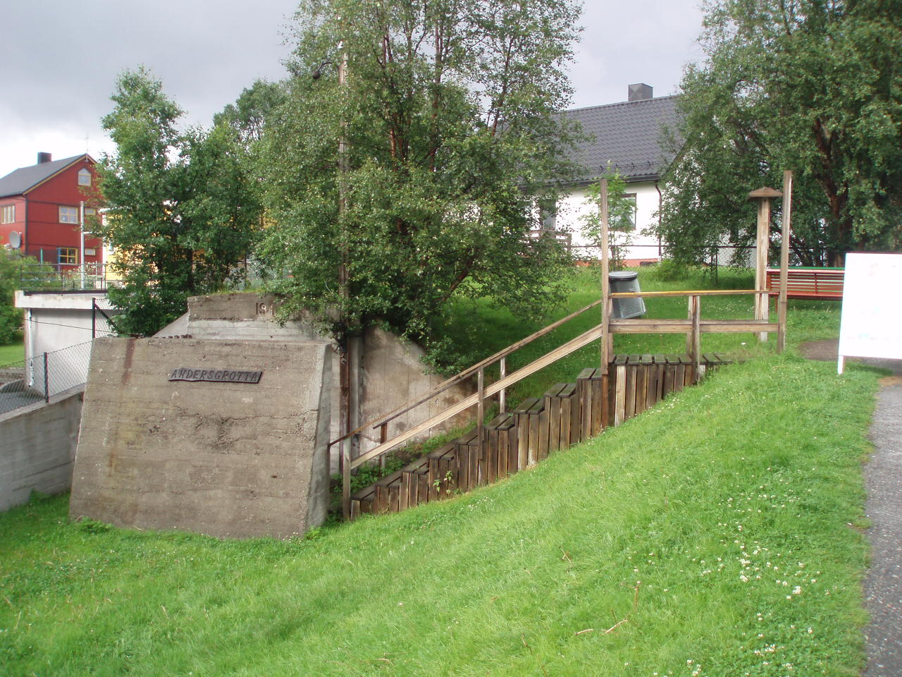 Andersgrotta in Kirkenes, Norway. A bombshelter made during the second world war by the civilians of Kirkenes.